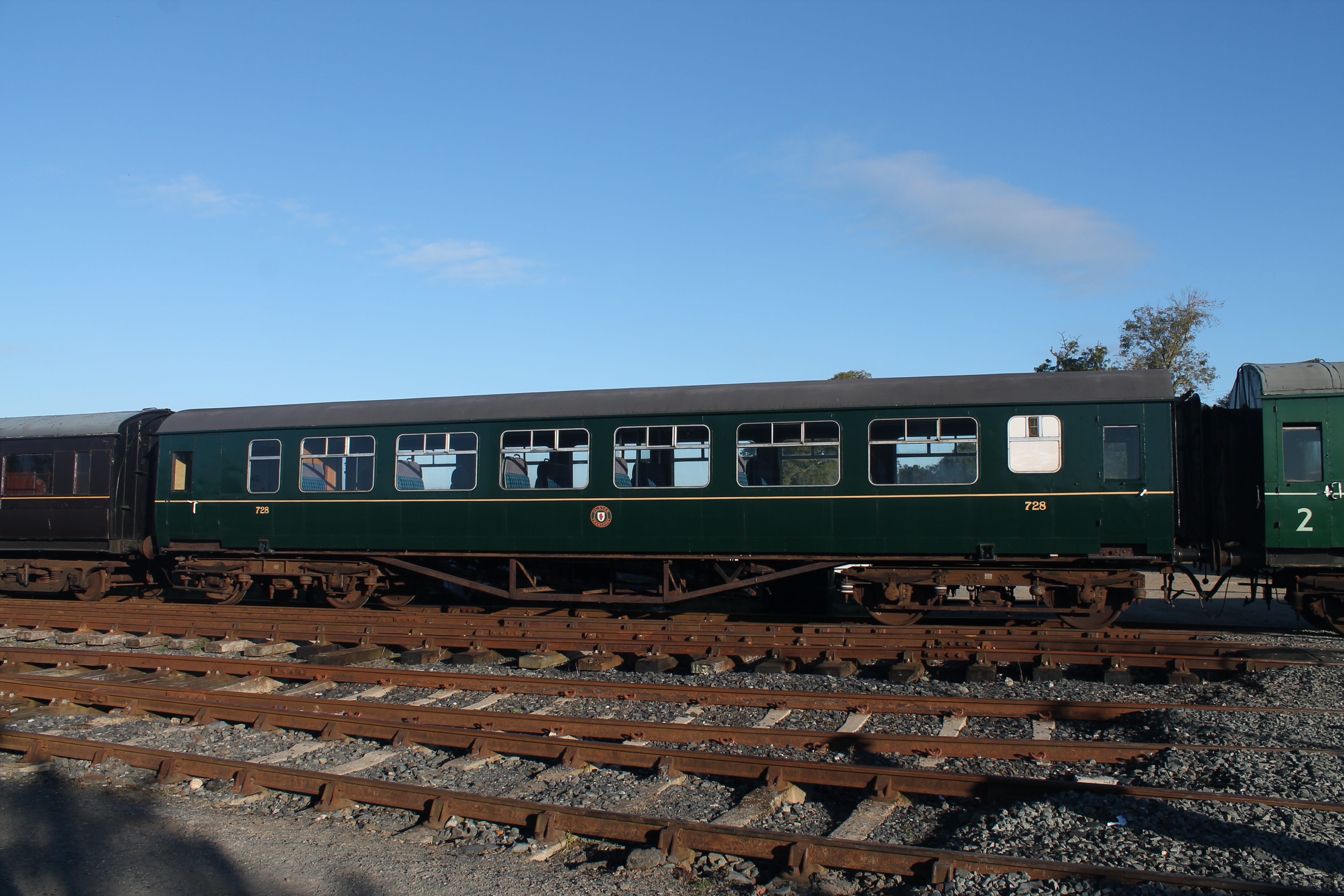 UTA 728 At the DCDR, 17/10/2015